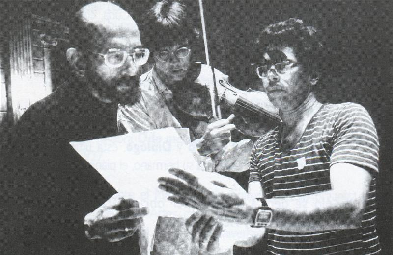 Gramatges and Brouwer